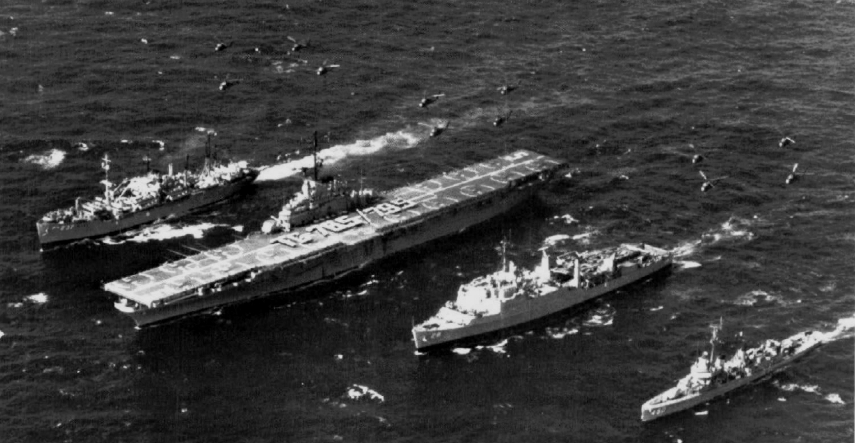 The U.S. Navy 7th Fleet Amphibious Ready Group underway in March 1965. The ships are (l-r): USS Bexar (APA-237), USS Princeton (LPH-5), USS Thomaston (LSD-28), and USS O'Bannon (DD-450). Sikorsky UH-34D helicopters of Marine Medium Helicopter Transport Squadron HMM-365 fly above the ships while Princeton´s crew spells out the groups' designations "TG 76.5/79.5" on the flight deck. Note: In the original caption DD-450 is wrongly identified as USS Joseph E. Connolly (DE-450), which was already decommissioned in 1946.